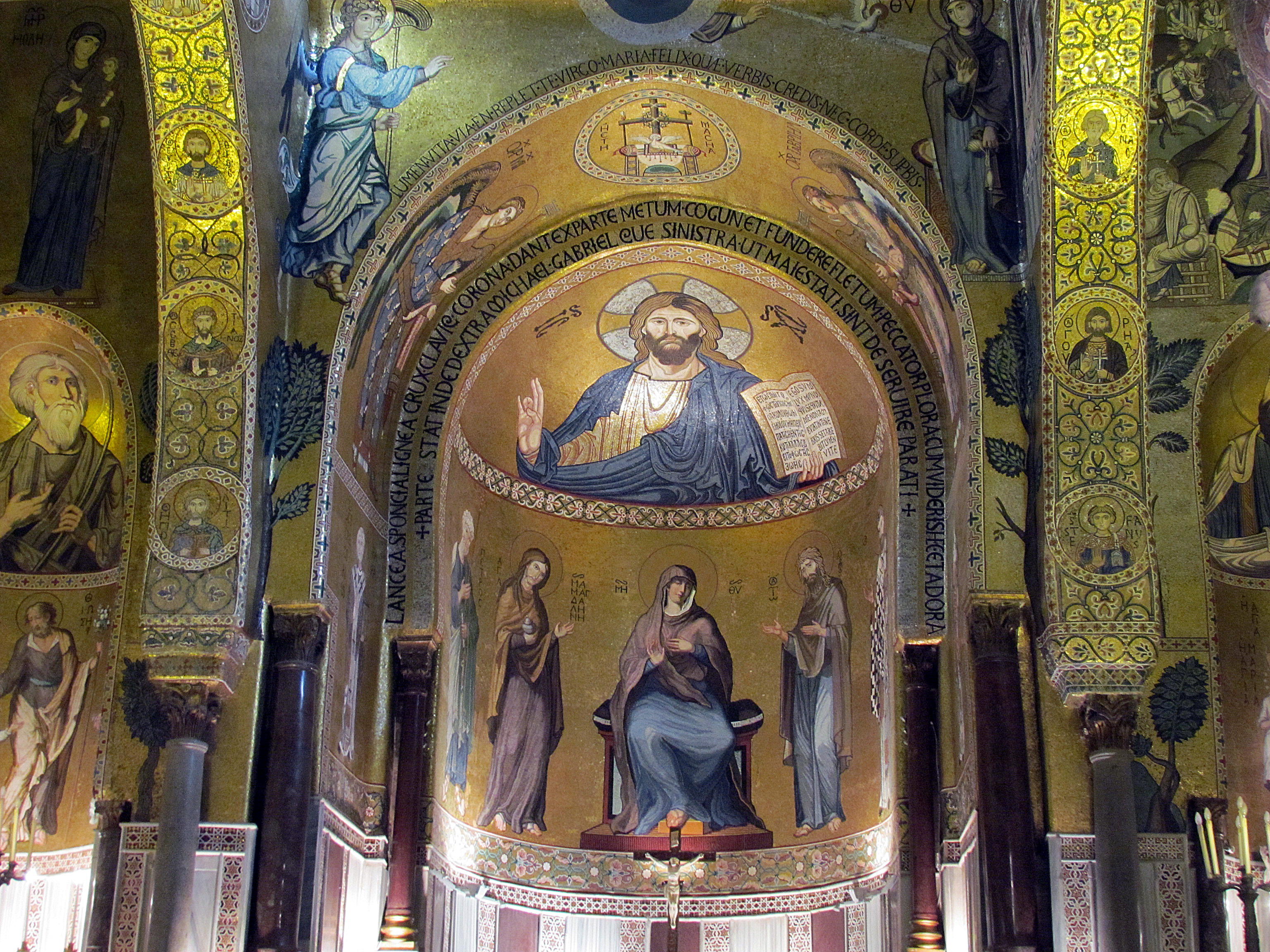 Central apse in Cappella Palatina, Palermo